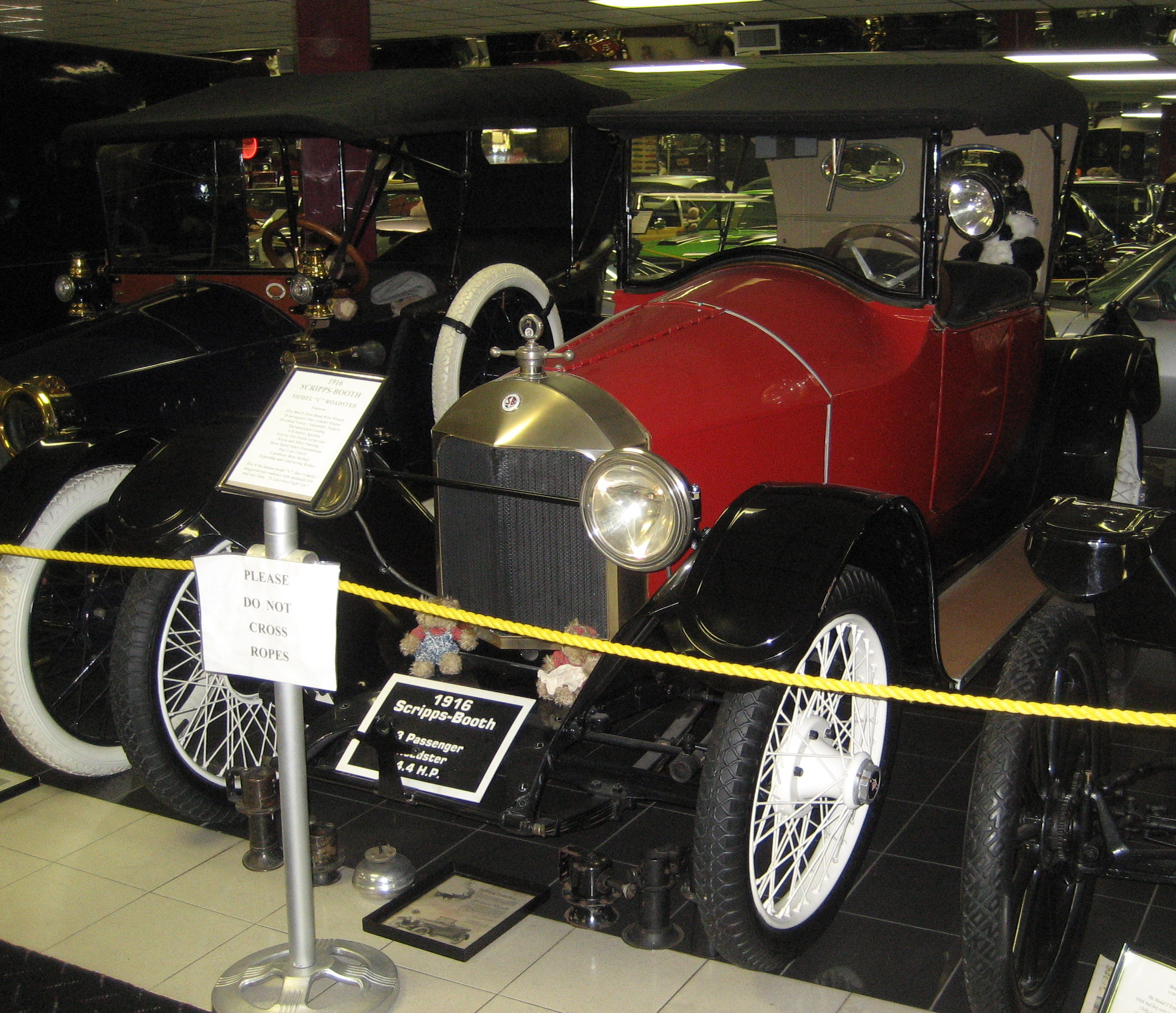 1916 Scripps-Booth Model "C" Roadster automobile on display at Tallahassee Automobile Museum.